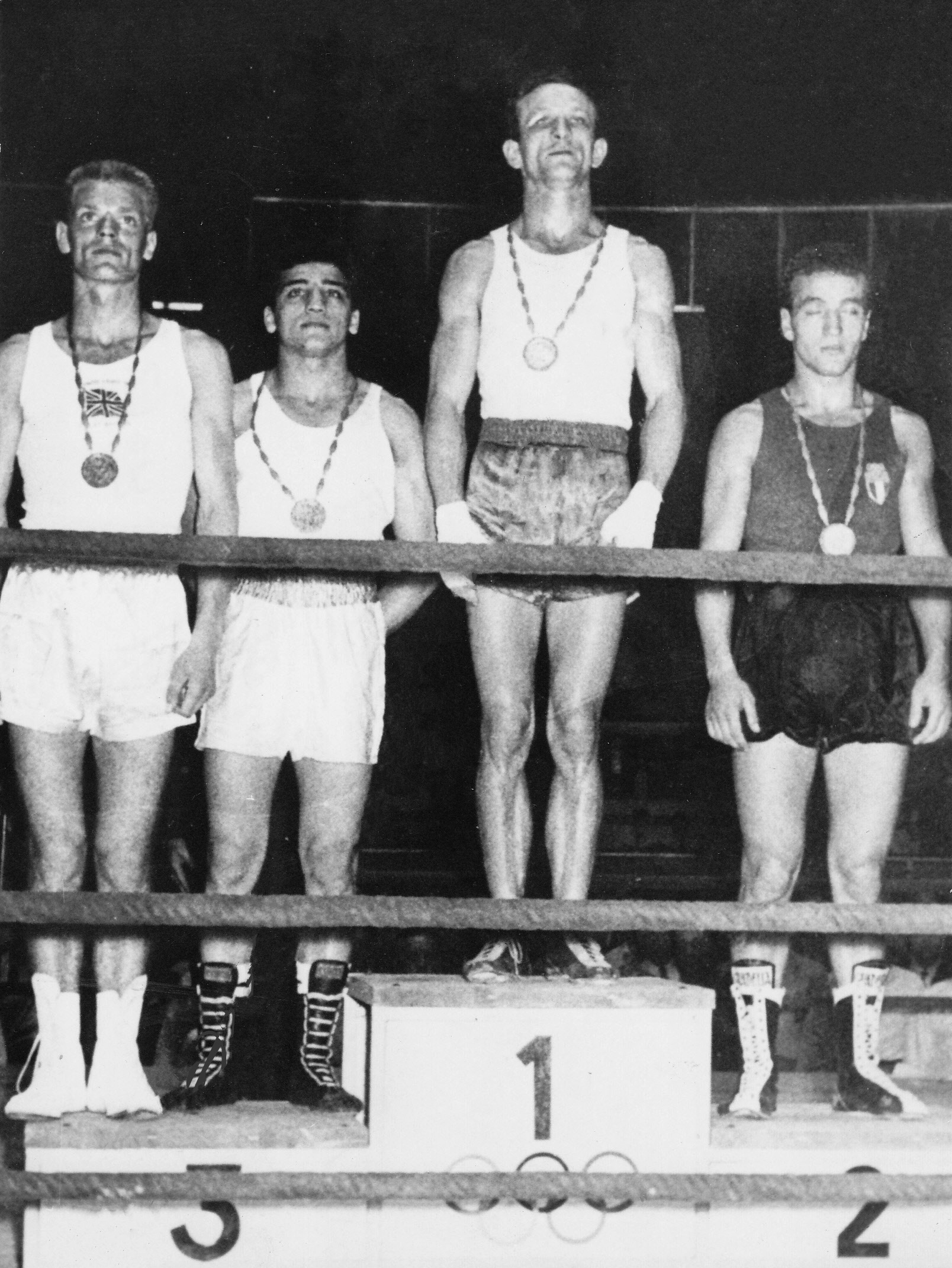 Left-right: Dick McTaggart, Abel Laudonio, Kazimierz Paździor, Sandro Lopopolo at the Rome Olympics